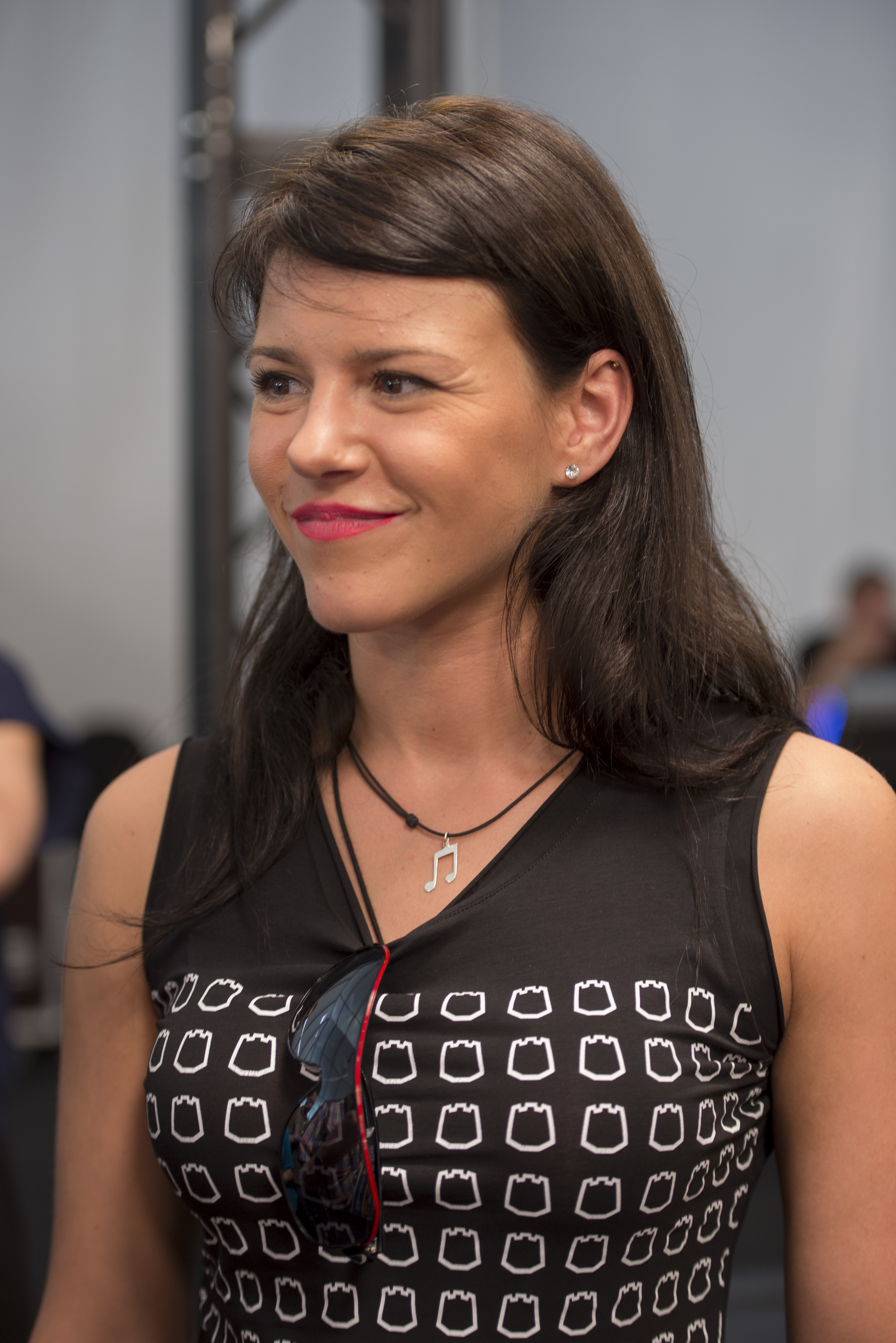 Vilija Matačiūnaitė at a Meet & Greet during the Eurovision Song Contest 2014 Copenhagen. (Help translate this text)